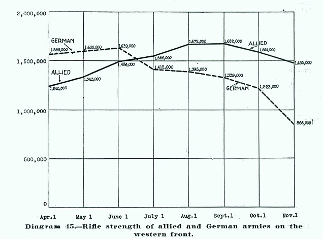 Graph showing the number of German and Allied riflemen on the Western front April to November 1918. Leonard P. Ayers, ed. The war with Germany: a statistical summary (Published 1919 by Govt. Print. Off. in Washington DC) url= page = 104 Published in US before 1924